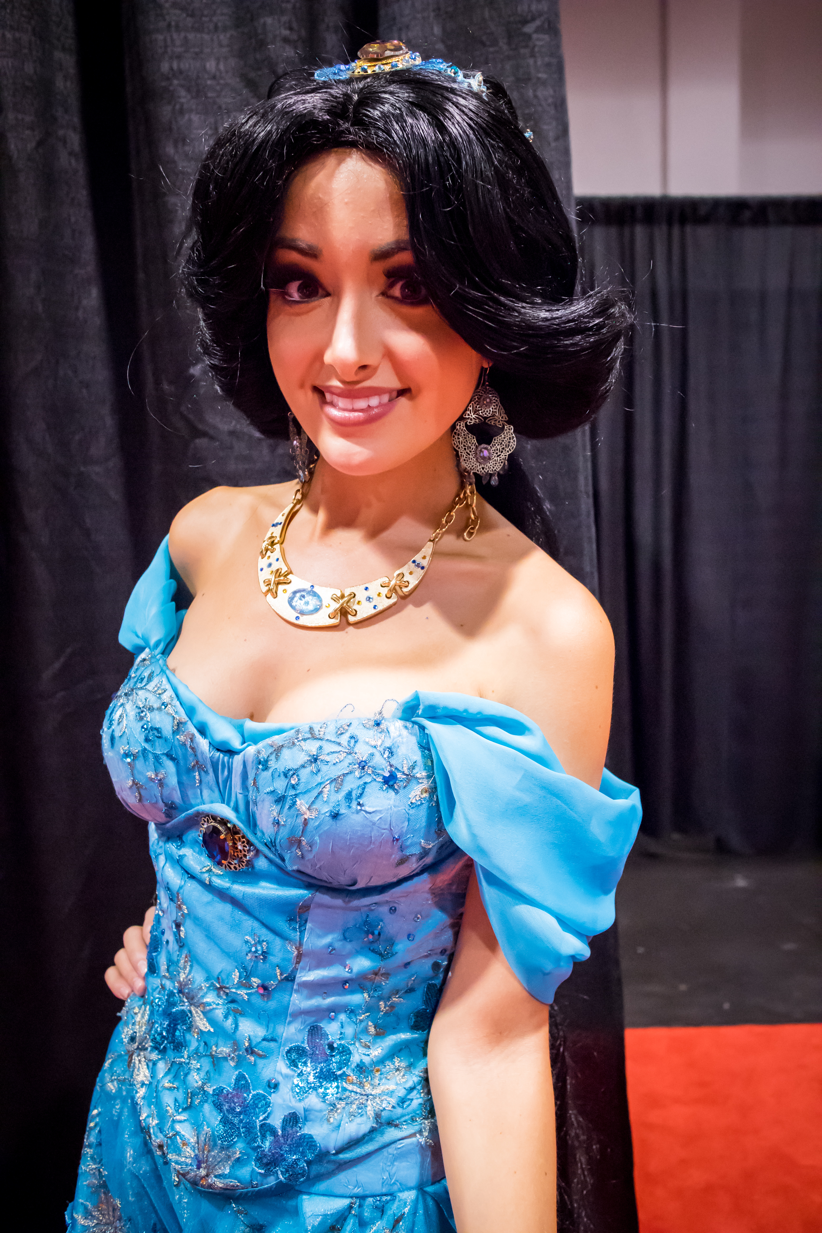 D23 Expo 2015-5805 Cosplay at Disney's D23 Expo 2015.